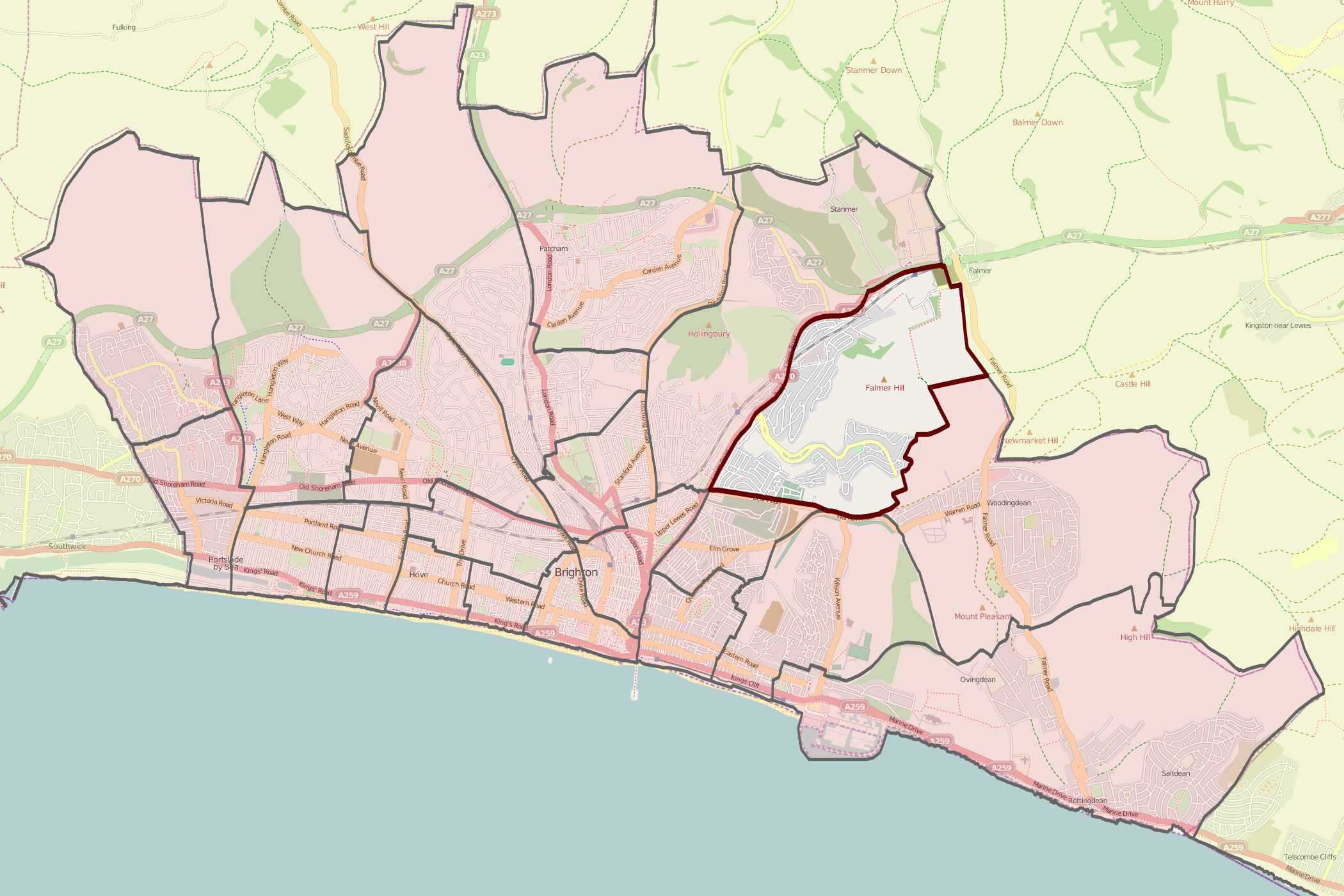 Map of Brighton and Hove wards with one ward highlighted